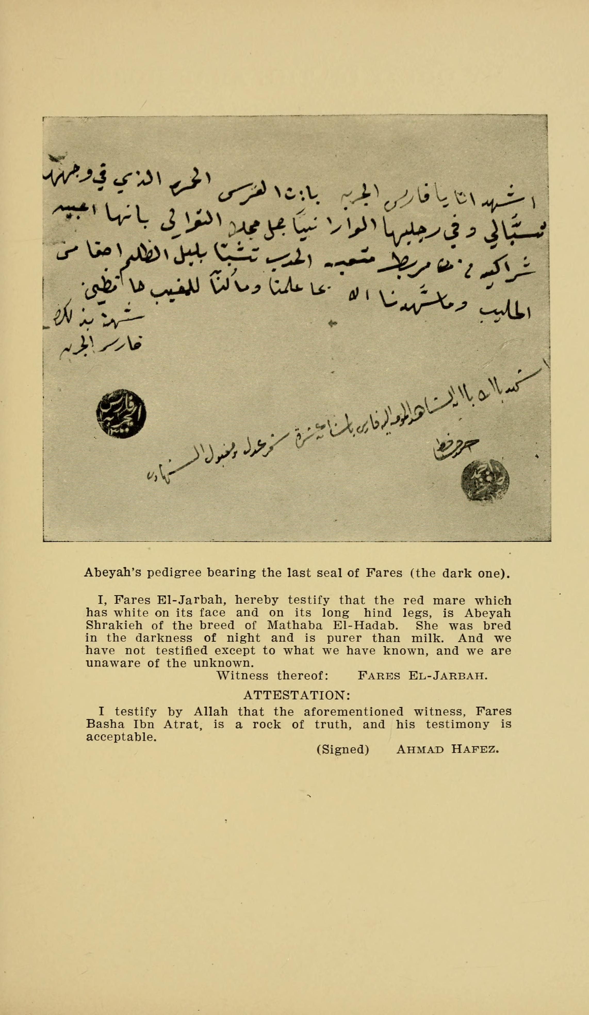 My quest of the Arab horse / by Homer Davenport.